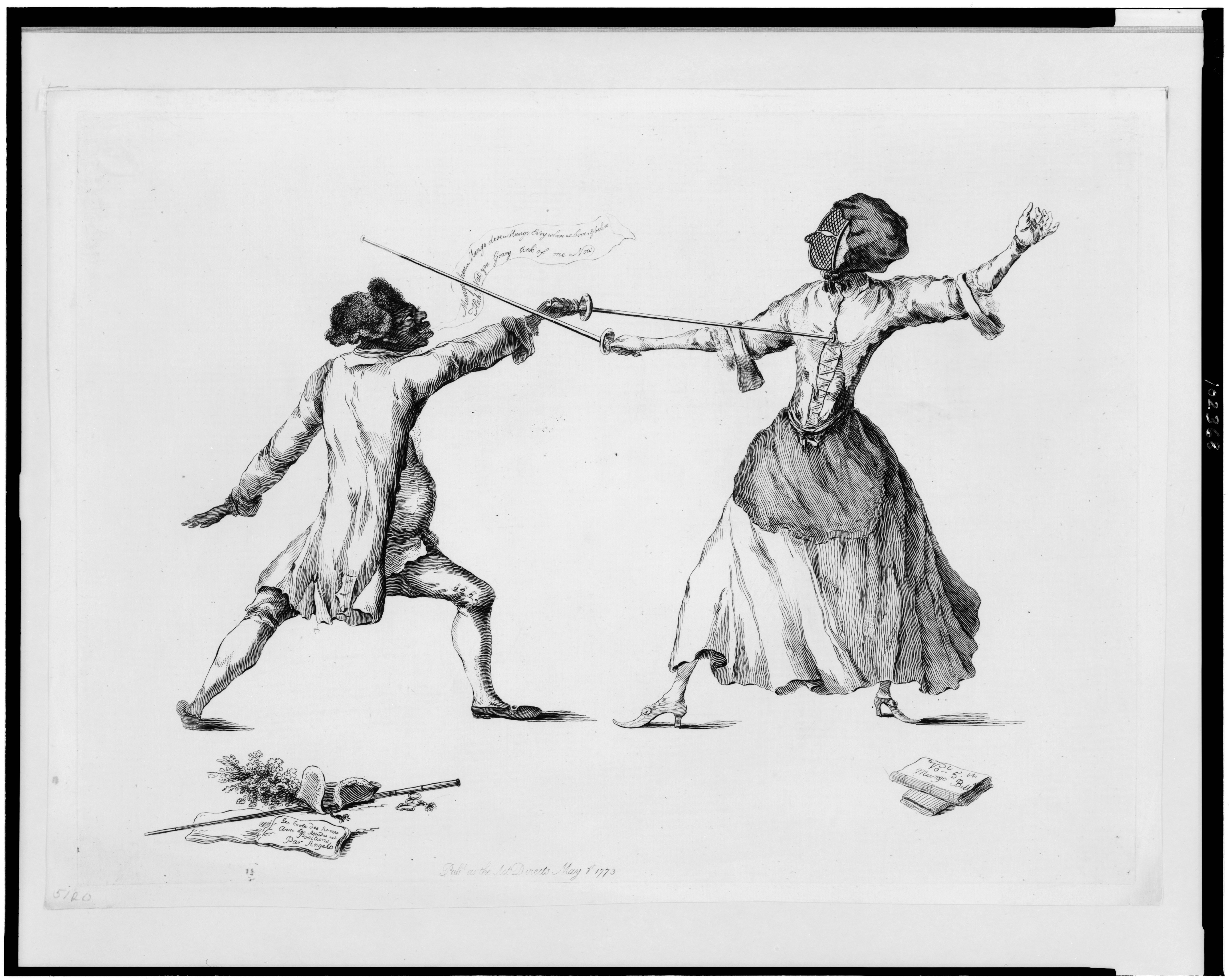 Title: The Duchess of Queensberry and Soubise Abstract: A fencing match between a Black man and the Duchess whose face is concealed by a fencing mask. Physical description: 1 print : engraving. Notes: Forms part of: British cartoon Prints collection (Library of Congress).